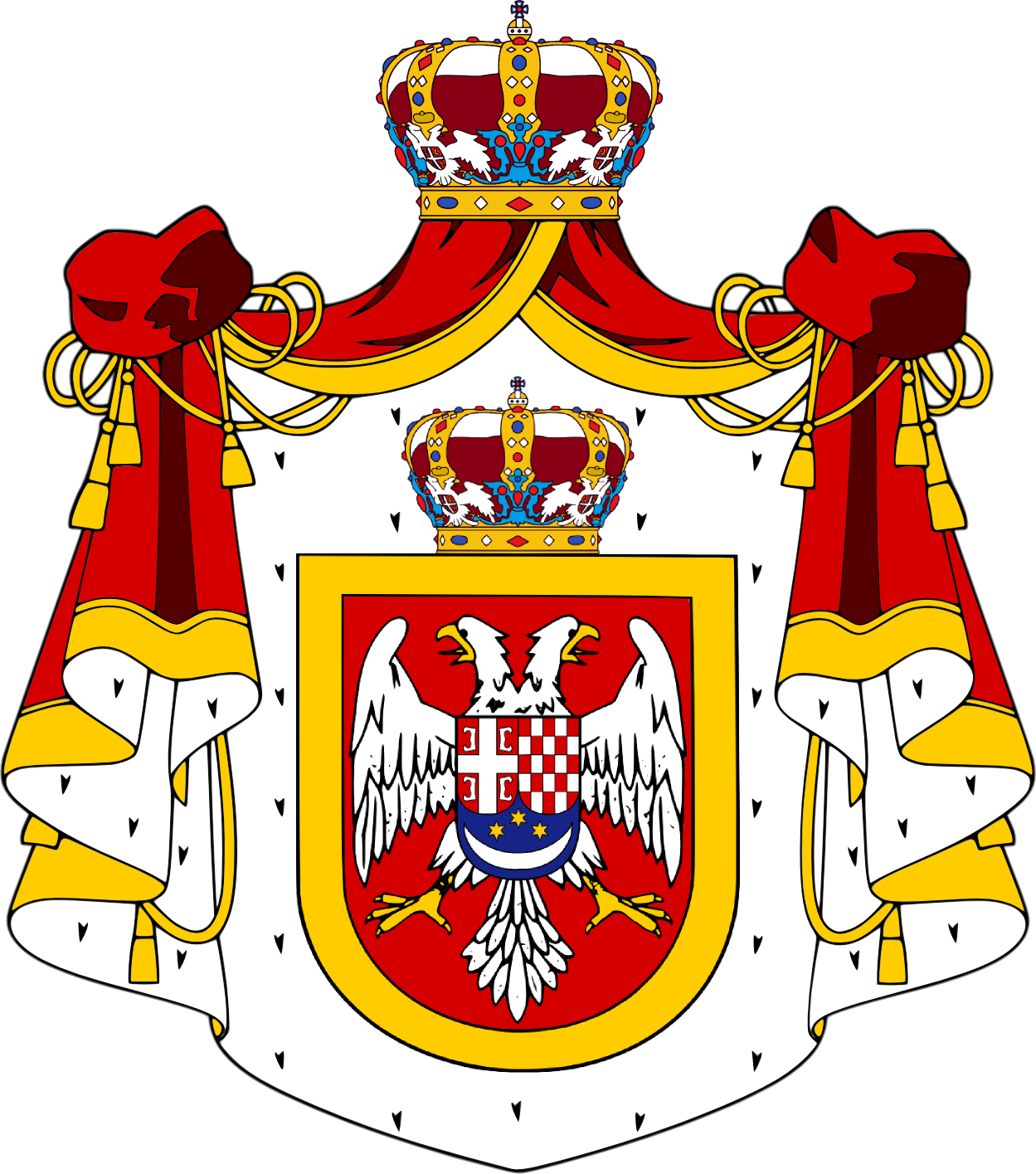 Coat of arms of Prince Paul of Yugoslavia